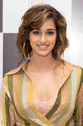 Disha Patani grace the launch of Arth restaurant on Junuary 8, 2018